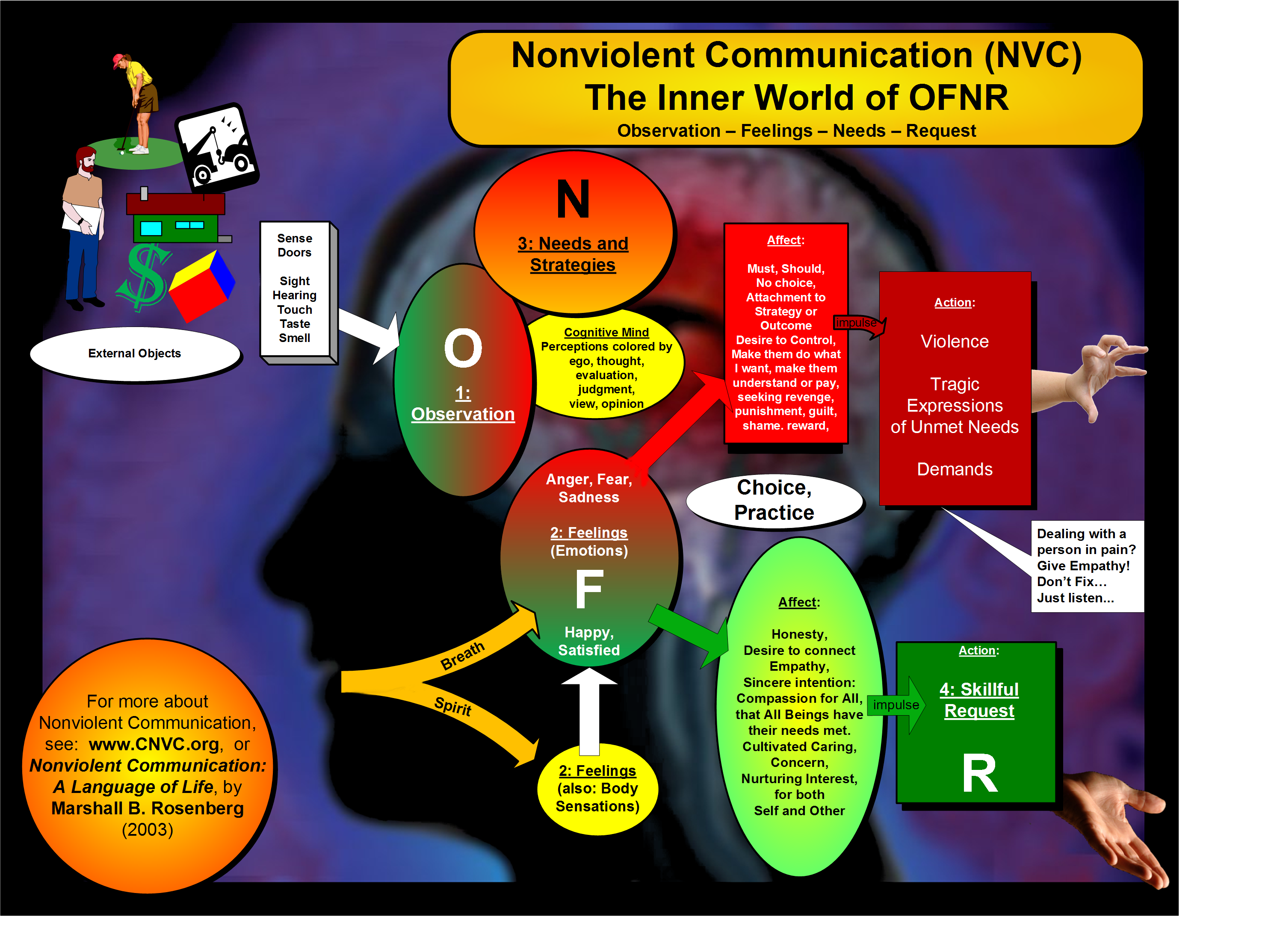 I, William Huston, am the author of this diagram, Dec. 16 2009. Latest Revision: Dec. 4, 2010.